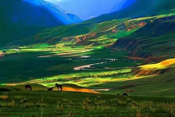 The view of July 1 Glacier